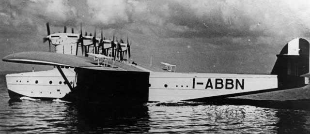 The Alessandro Guidoni (registered I-ABBN), one of two flying boats type Dornier Do X of the Italian Navy.